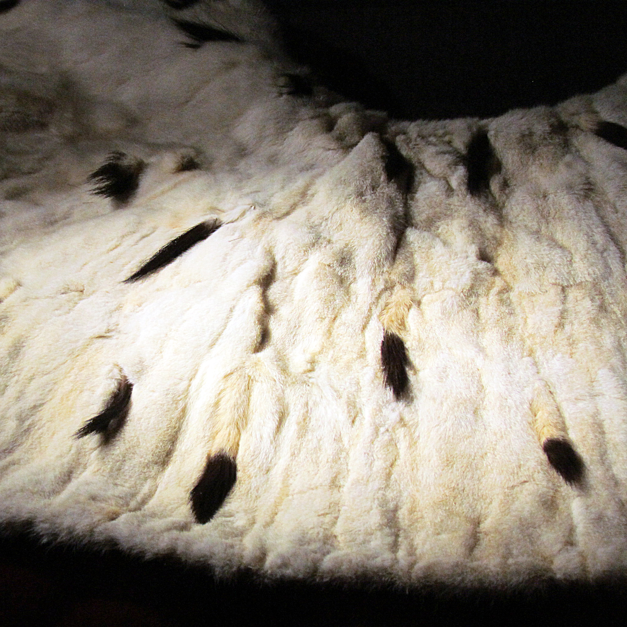 Ermine fur from royal garment of king Petar I of Serbia